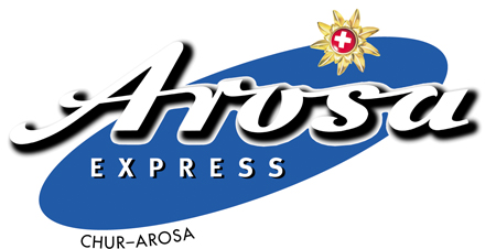 logo ArosaExpress